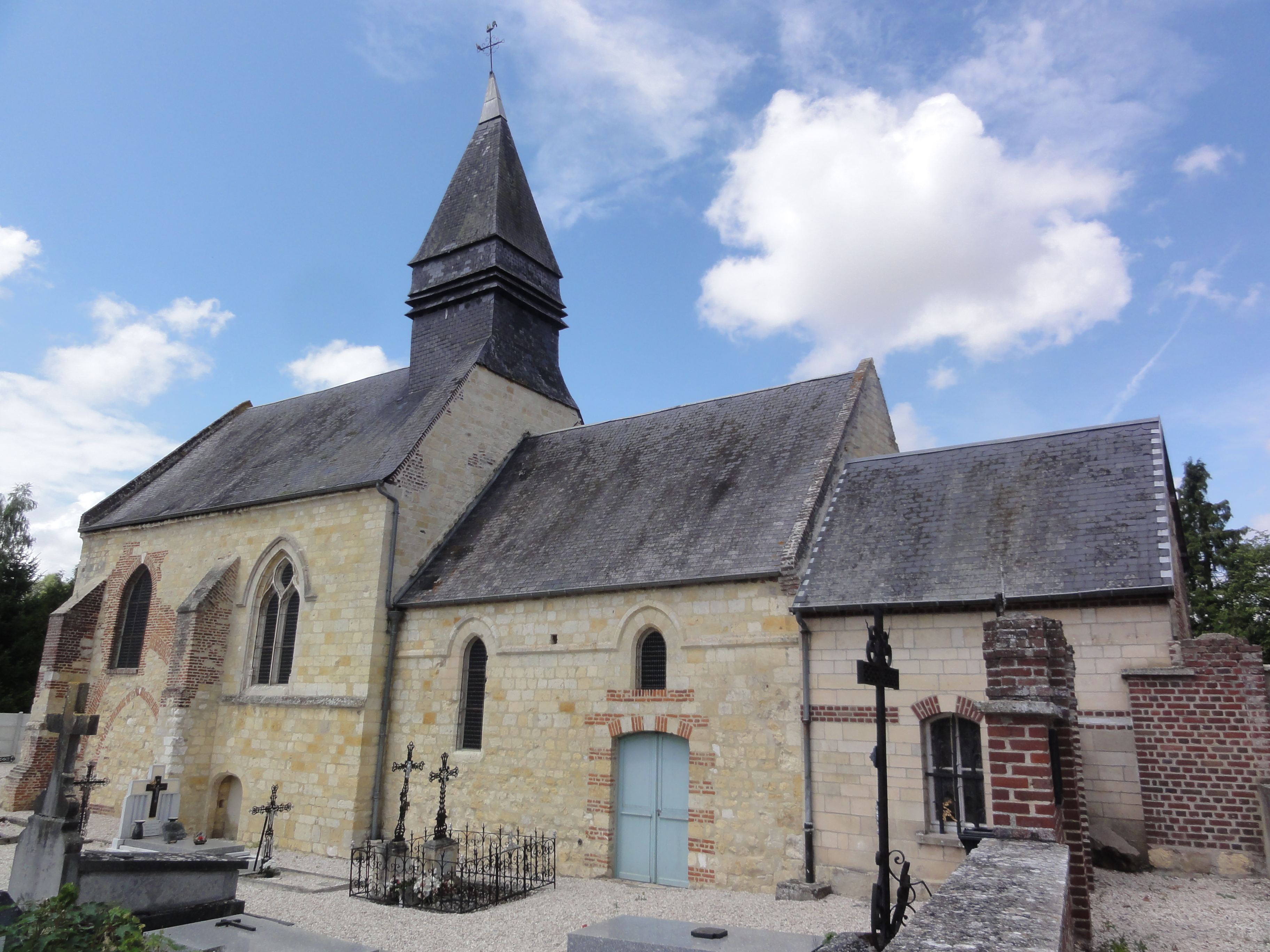 Pithon (Aisne) église Saint-Rémi